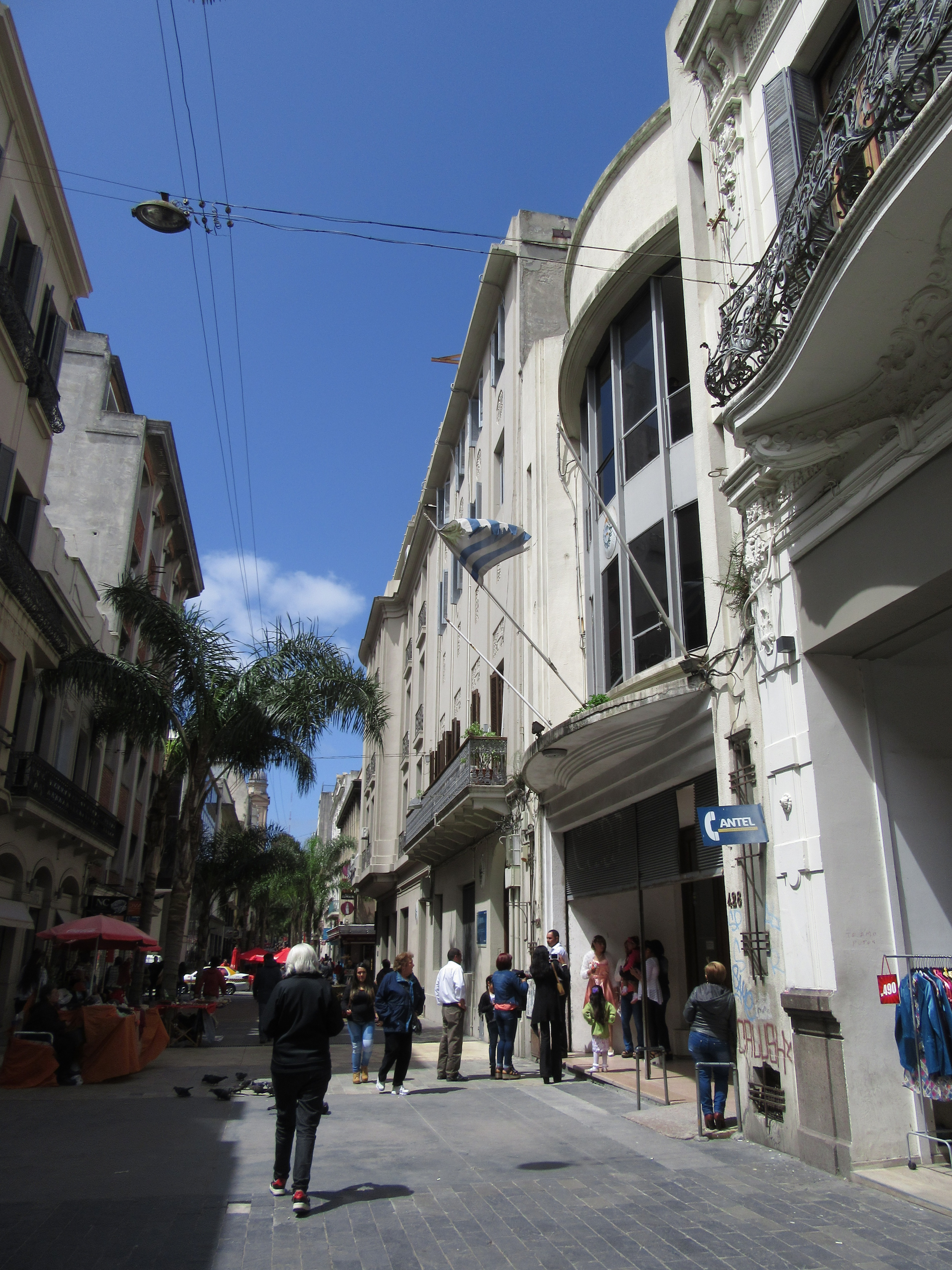 Montevideo